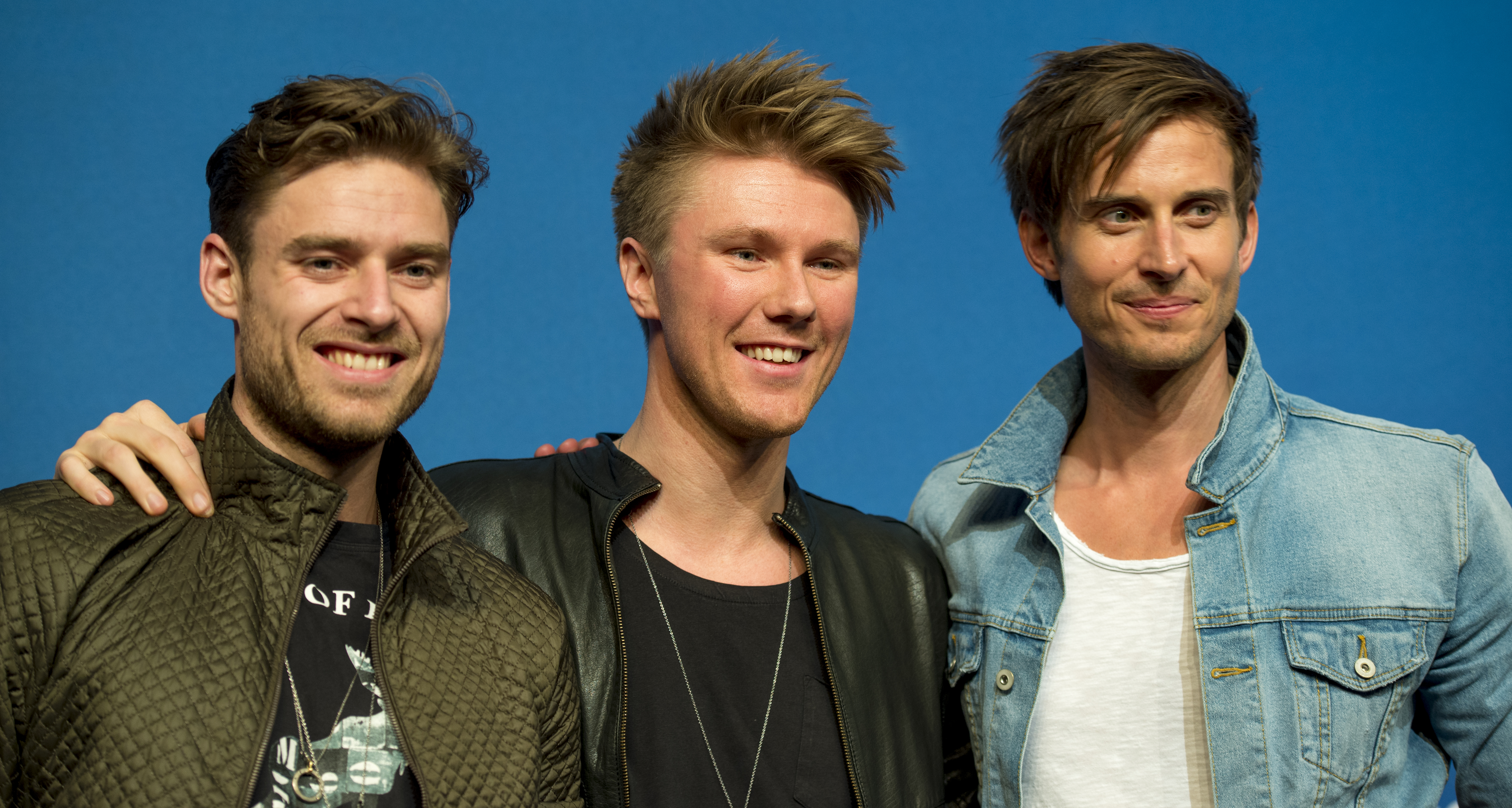 Lighthouse X at a Meet & Greet during the Eurovision Song Contest 2016 Stockholm. (Help translate this text)